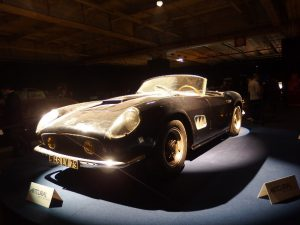 1961 Ferrari 250 GT California s/n 2935GT.[1]